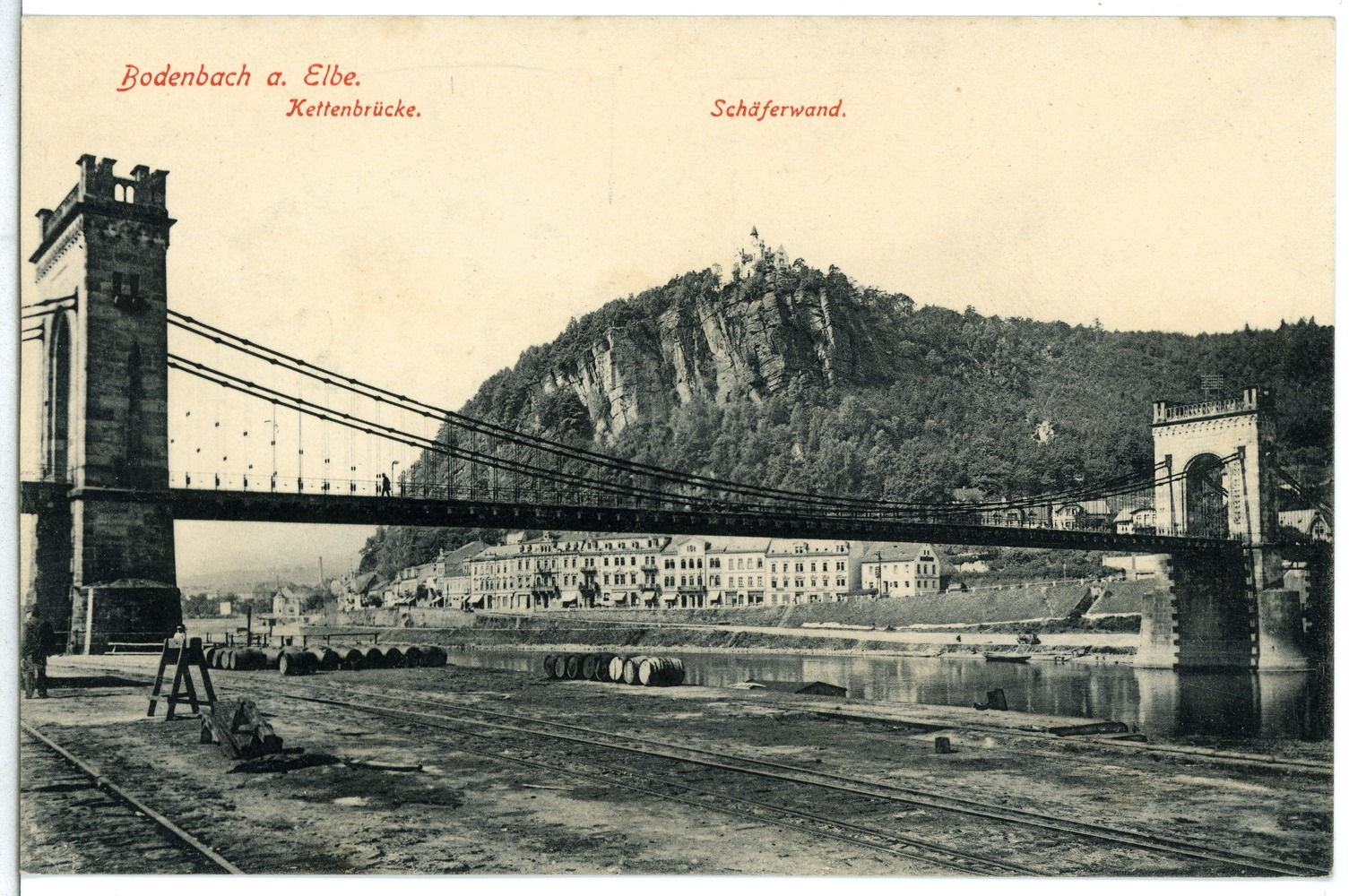 This postcard is from publisher Brück & Sohn in Meißen ( This postcard has a unique number 11836 and is available in a higher resolution at the publisher. This images was uploaded in a cooperation project between Wikipedians and the publisher.